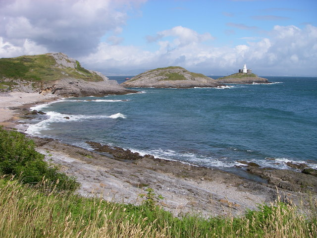 Bracelet Bay A view across this inlet to the two islands forming the easternmost point of Gower - Middle Head and the outer head adorned by a lighthouse. Beds of the Hunt's Bay Oolite dip northwards and eastwards hereabouts, as can be seen on the beach.